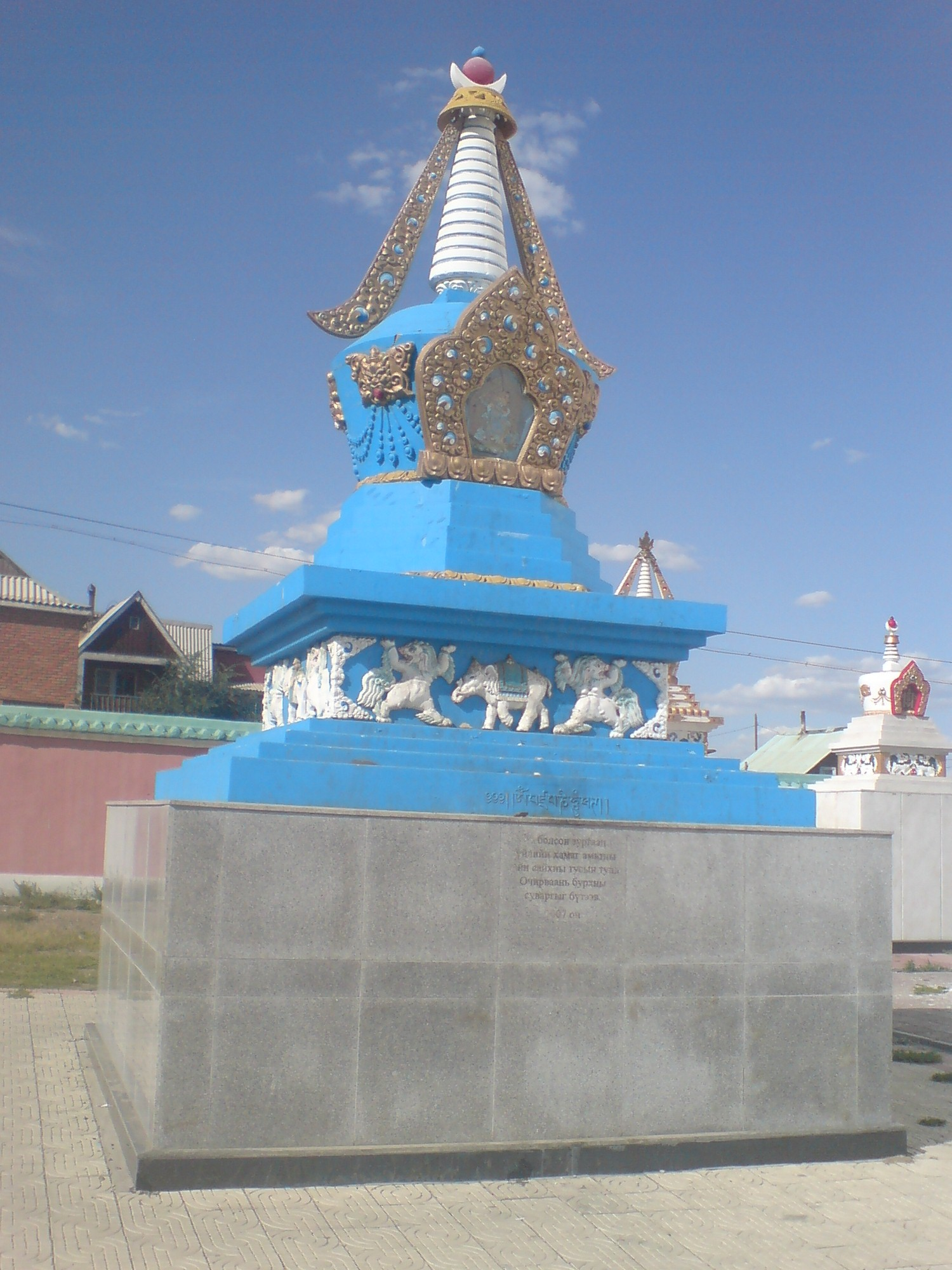 Vajrapani stupa (Gandantegchenling, Ulan-Bator)